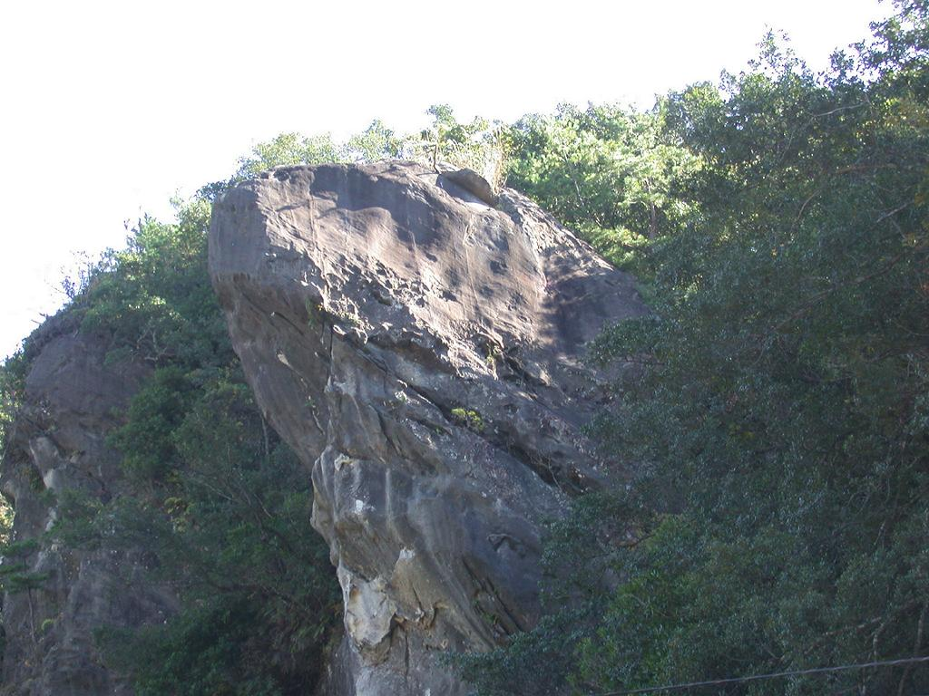 hikiiwa Date;2007,11,20;Tanabe city, Wakayama prefecture, Japan Author;Keisotyo